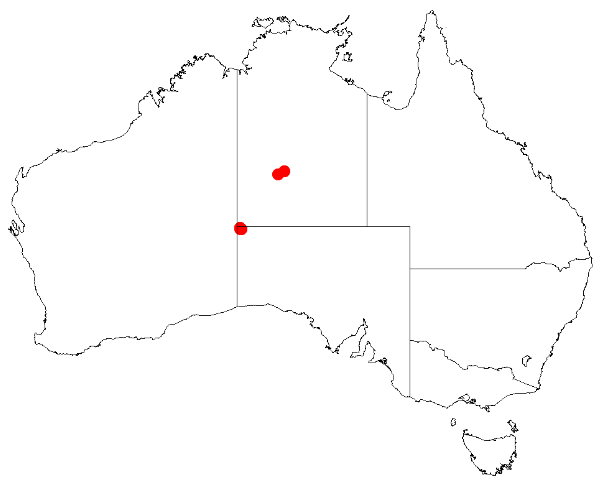 Scaevola obovata occurrence data downloaded from Australasian Virtual Herbarium 12 May 2019